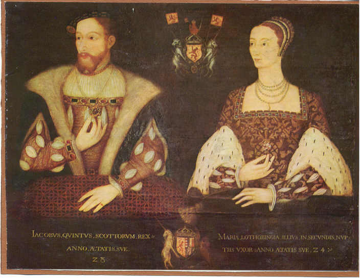 James V Stuart, King of Scots, and Marie of Guise-Lorraine